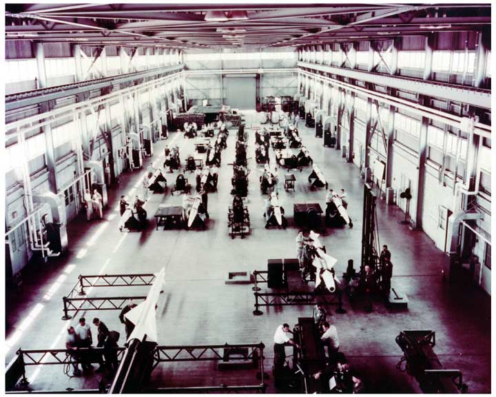 The Nike Ajax assembly line at Douglas Aircraft.